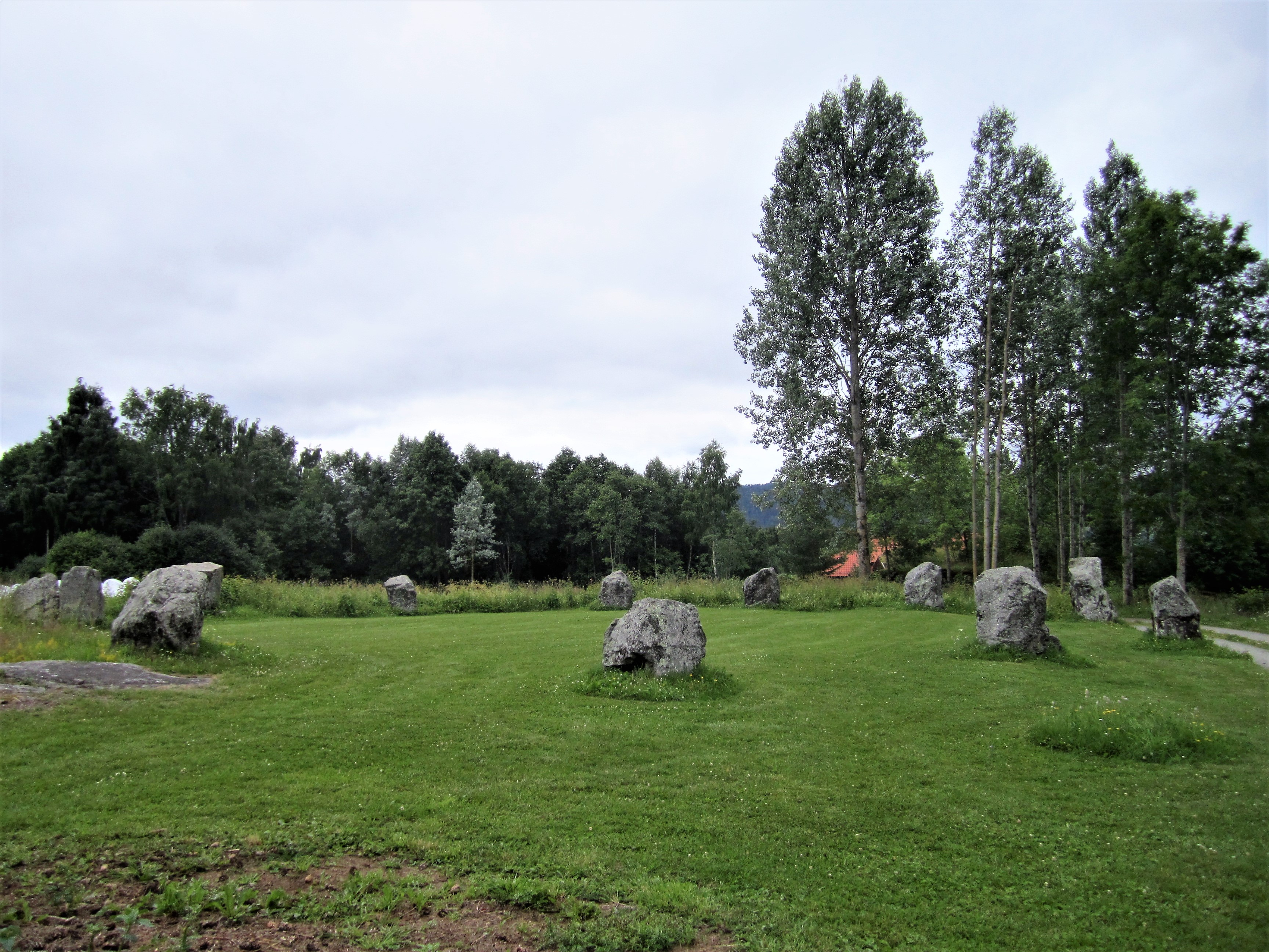 Tolvsteinringen (twelve-stone-ring), dated to 500 BC - 0, early iron age, restored in 1895